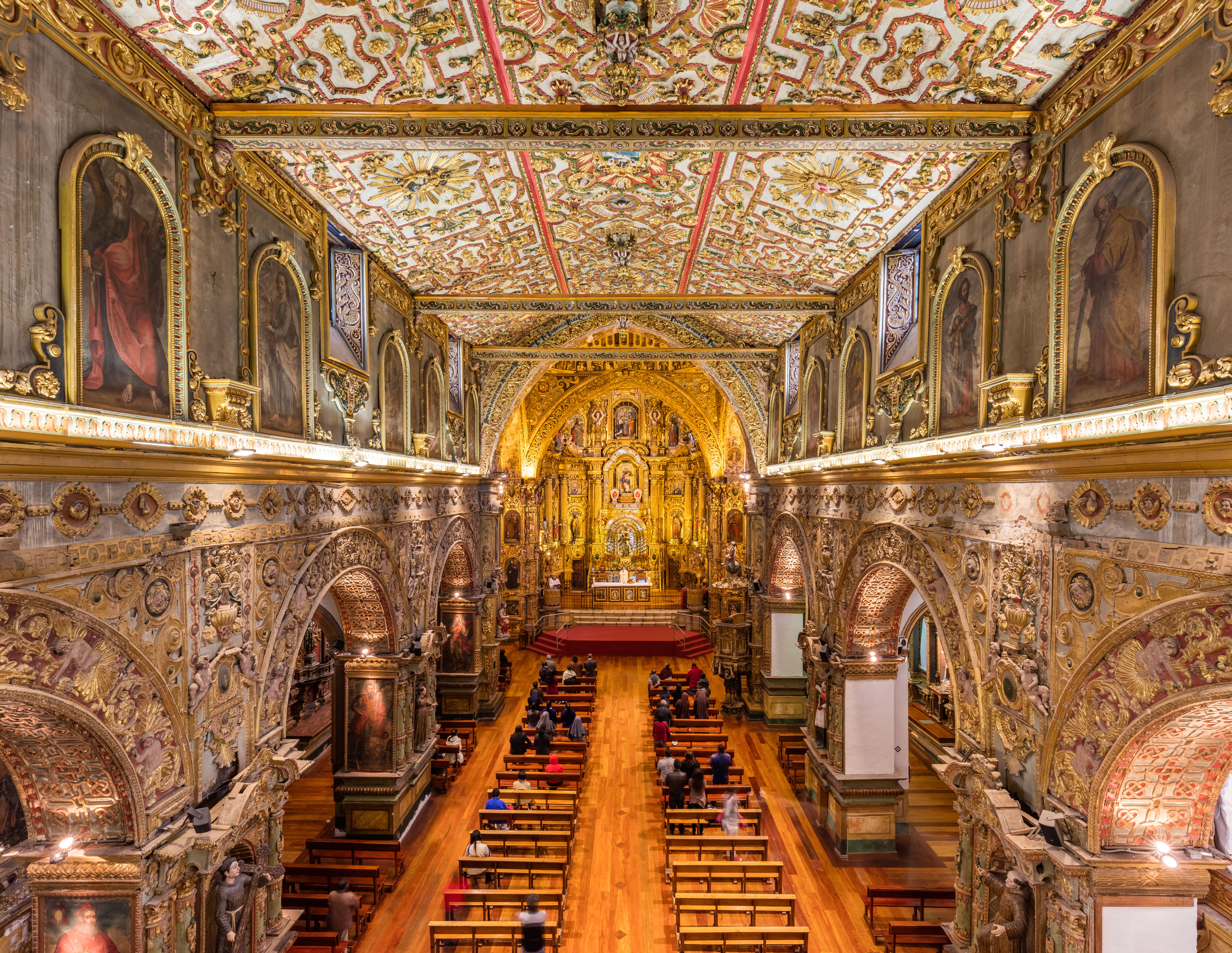 Superior view of the interior of the main nave of the church and Monastery of St. Francis, Quito, Ecuador. The Roman Catholic temple, finalized in the 17th century, is the largest architetural ensemble among the historical structures of colonial Latin America. The church is also featured by the mixture of different architecture styles as the construction took 150 years.